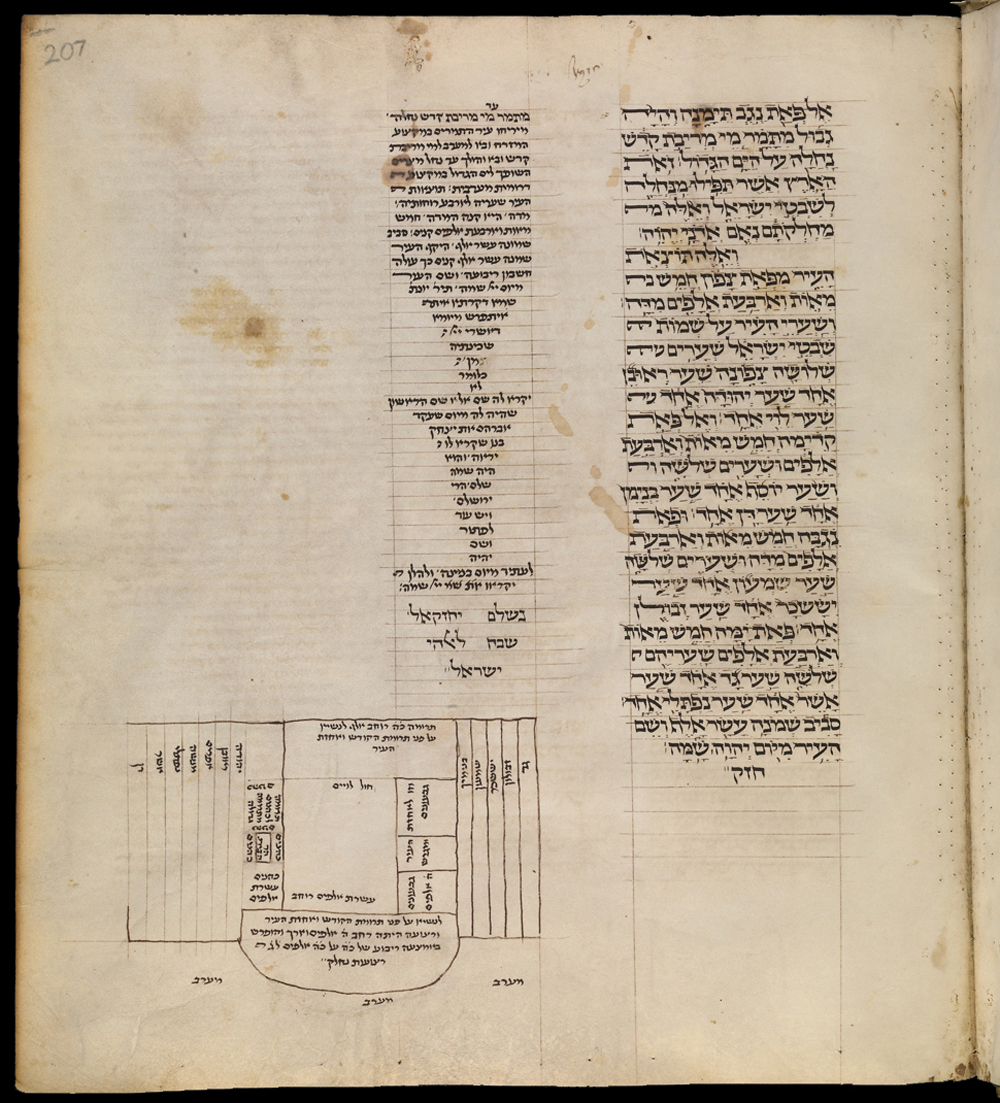 The Book of the prophets, with Rashi's commentary. France?, late 13th century, 16 3/4 x 14 1/8 in. (42.5 x 35.9 cm), MS. Opp. 2, fol. 207a The French rabbi Solomon ben Isaac, known as Rashi (1040–1105), was a leading commentator on the Bible and Talmud. This copy of his exegesis of the Book of Prophets was made about two hundred years after his death. The biblical text is in large letters, with the commentary alongside it in a smaller hand. The arrangement of text in a decorative fashion is a distinctive feature of Hebrew manuscripts. The diagram illustrates Ezekiel's vision in chapter 45 of the division of the Promised Land. Rashi probably drew the original himself to clarify his written exposition.